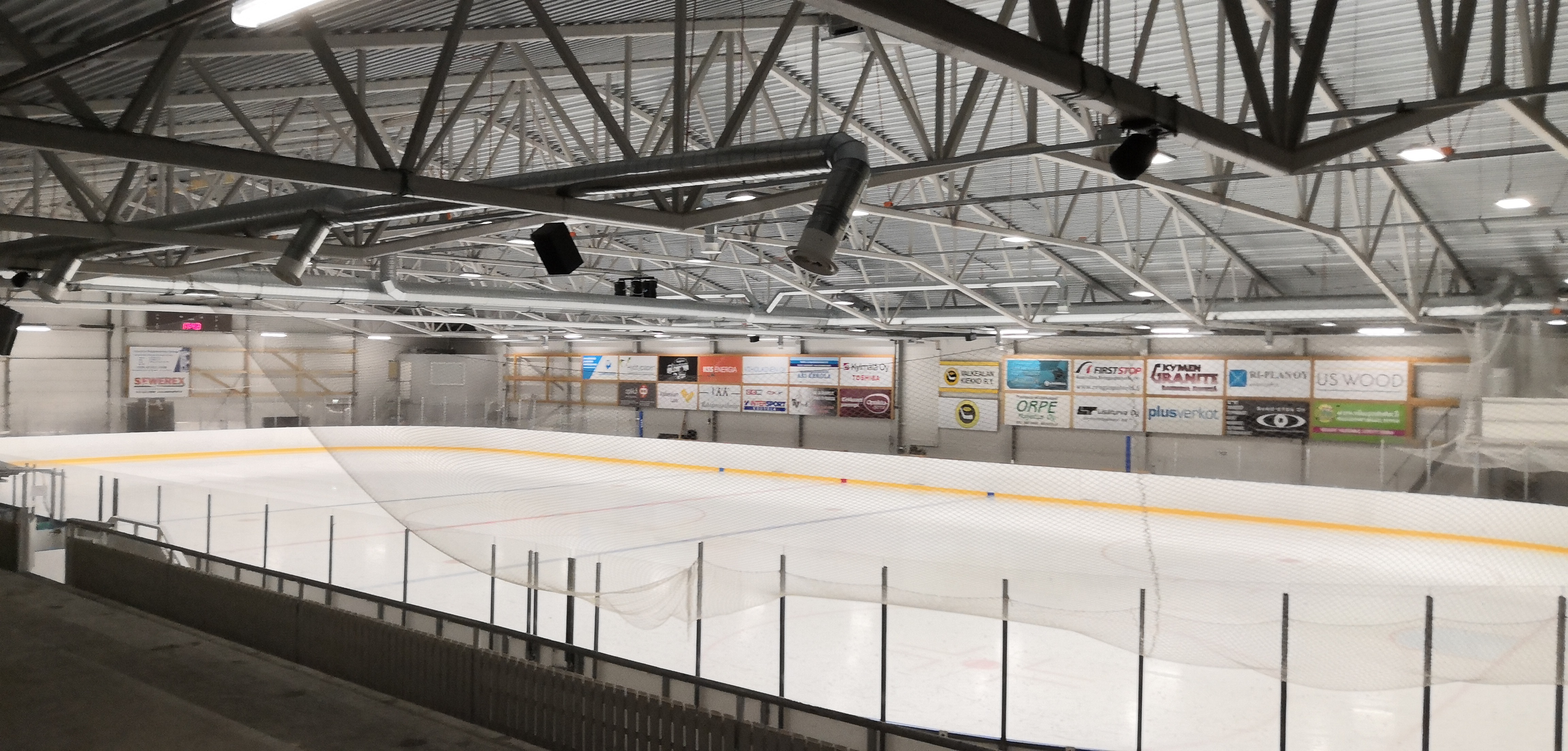 Valkealan jäähalli sisältä (syyskuu 2019)